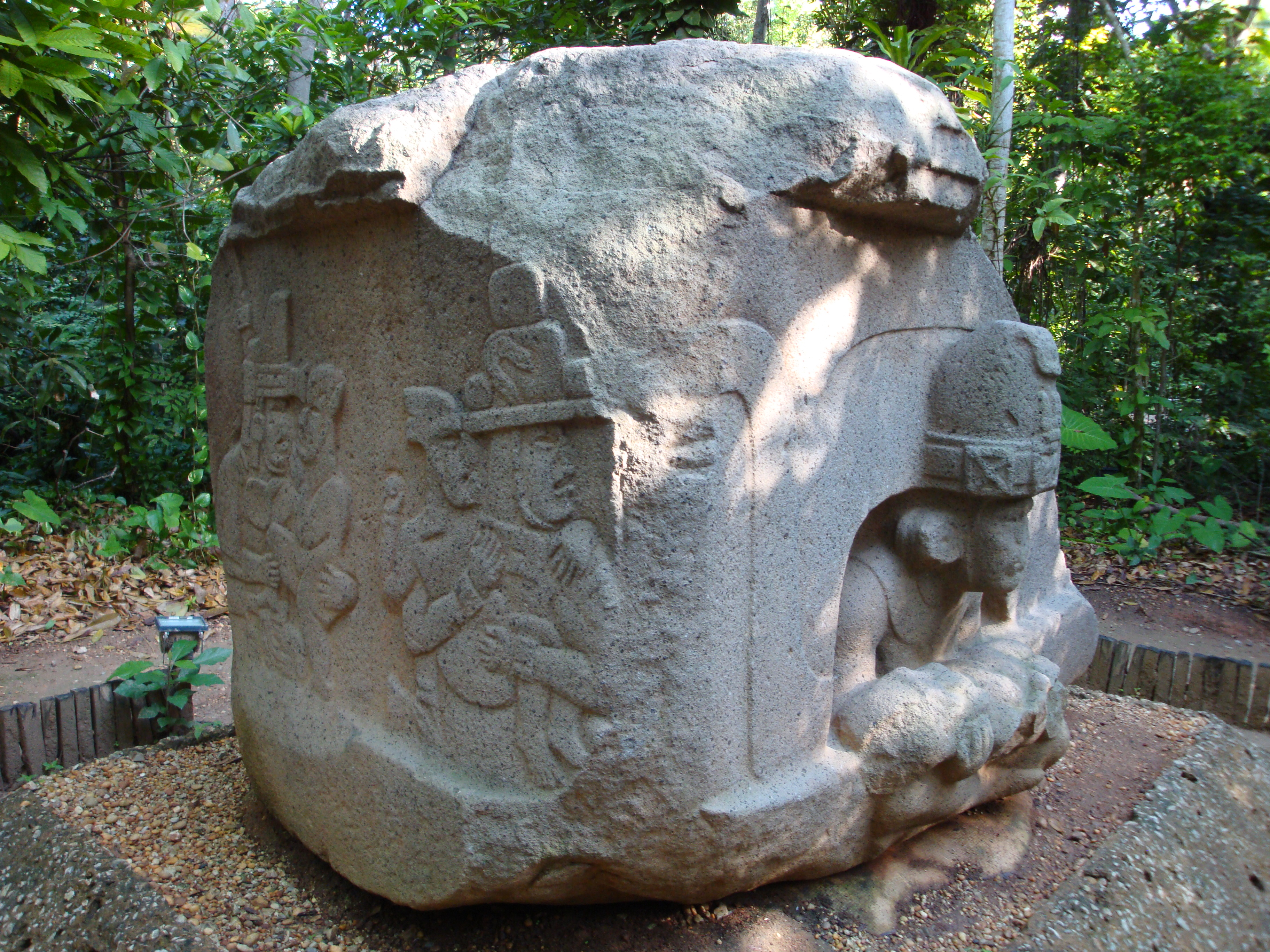 Olmec, La Venta, Altar 5